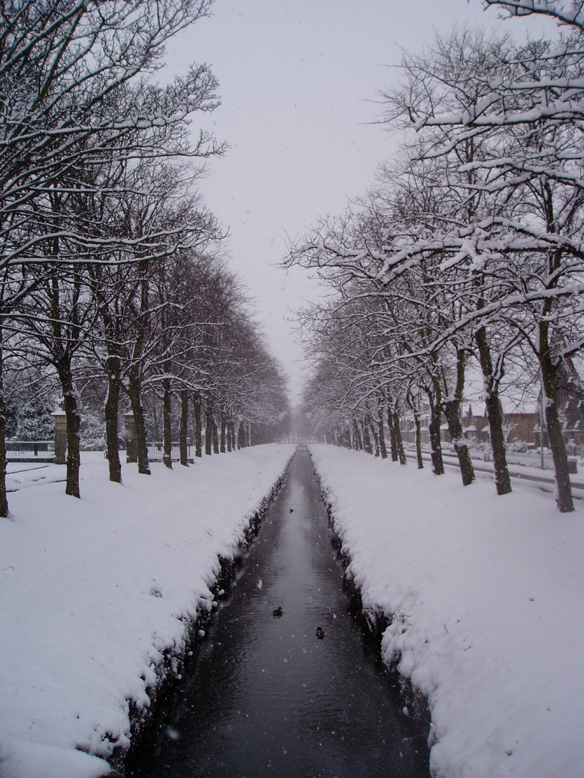 The Grange Burn, Grangemouth, Scotland, March 2006